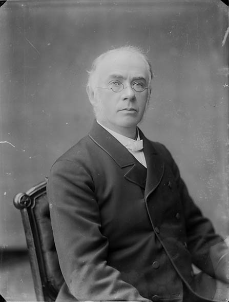 1 negative : glass, dry plate, b&w ; 21.5 x 16.5 cm.